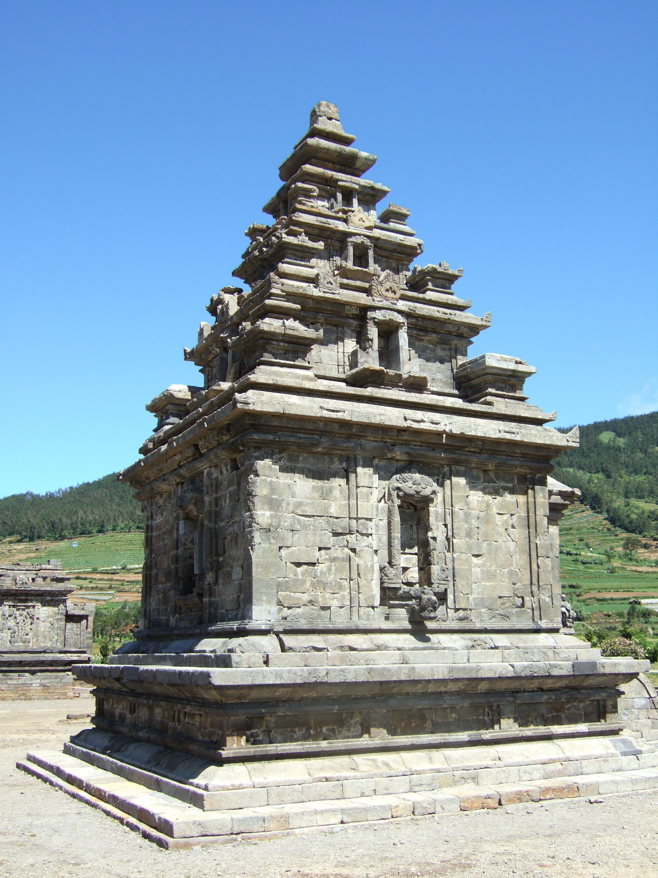 Arjuna temple (side view), Dieng Plateau, Central Java, Indonesia